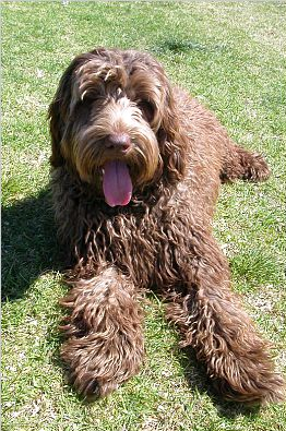 This photograph of my dog was taken by me in Sydney Australia in October 2003. I've uploaded it to use on the Wikipedia Labradoodle page.